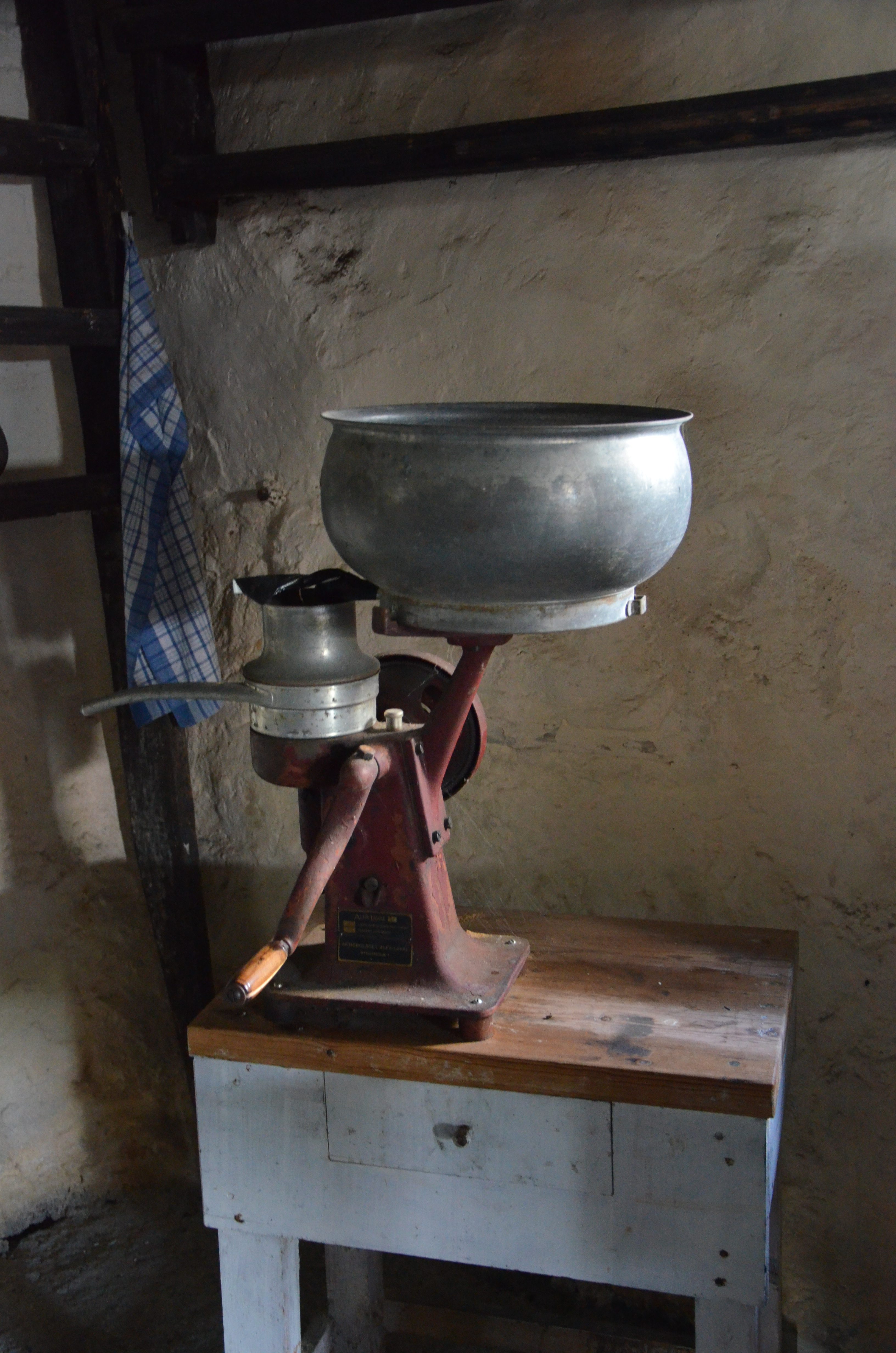 Separator, på Groddagården, Fleringe socken, Gotland